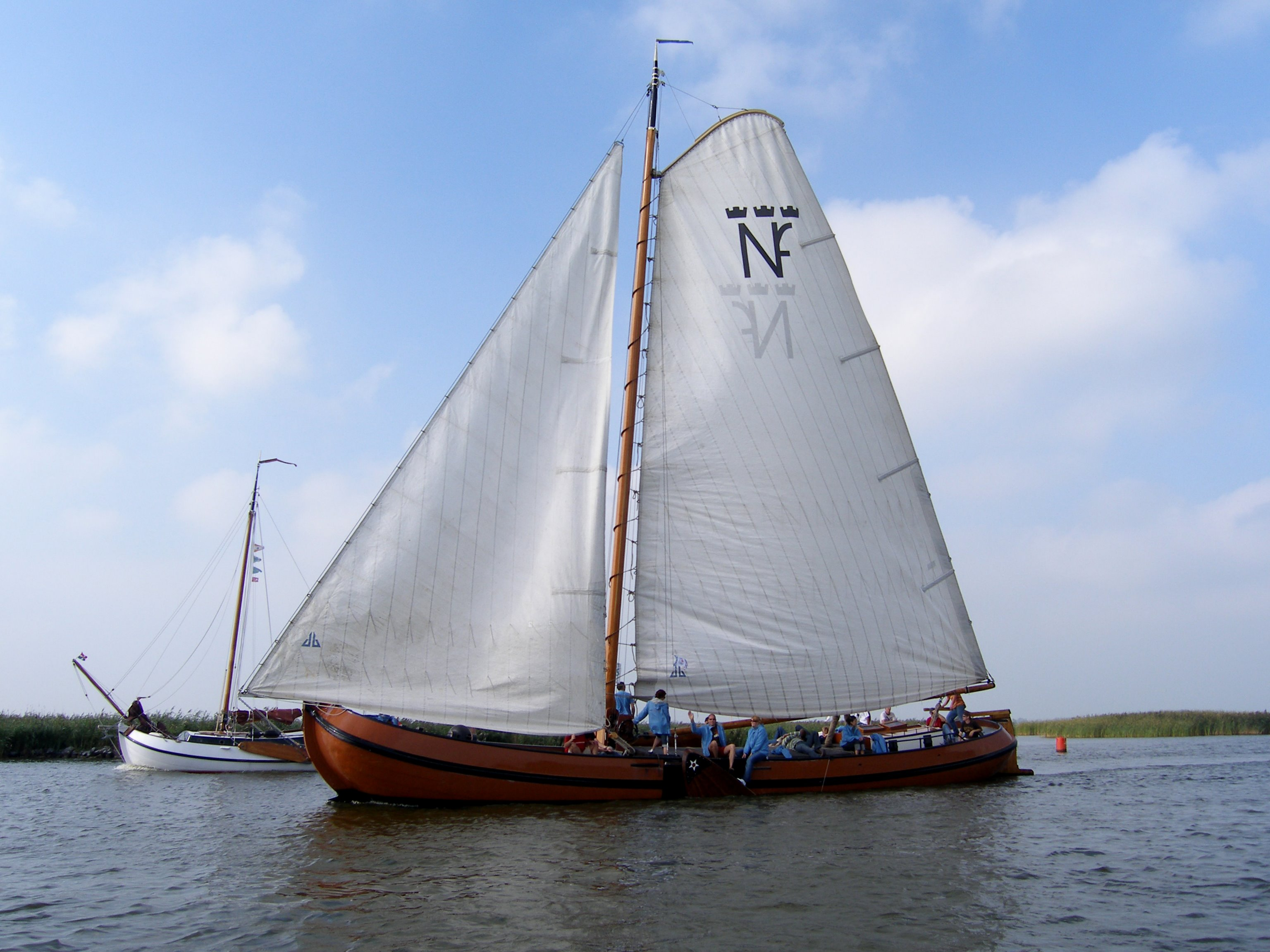 Skûtsje Risico near lake the Fluessen, Friesland. The ship was built in 1911. Length: 17.16 meter.